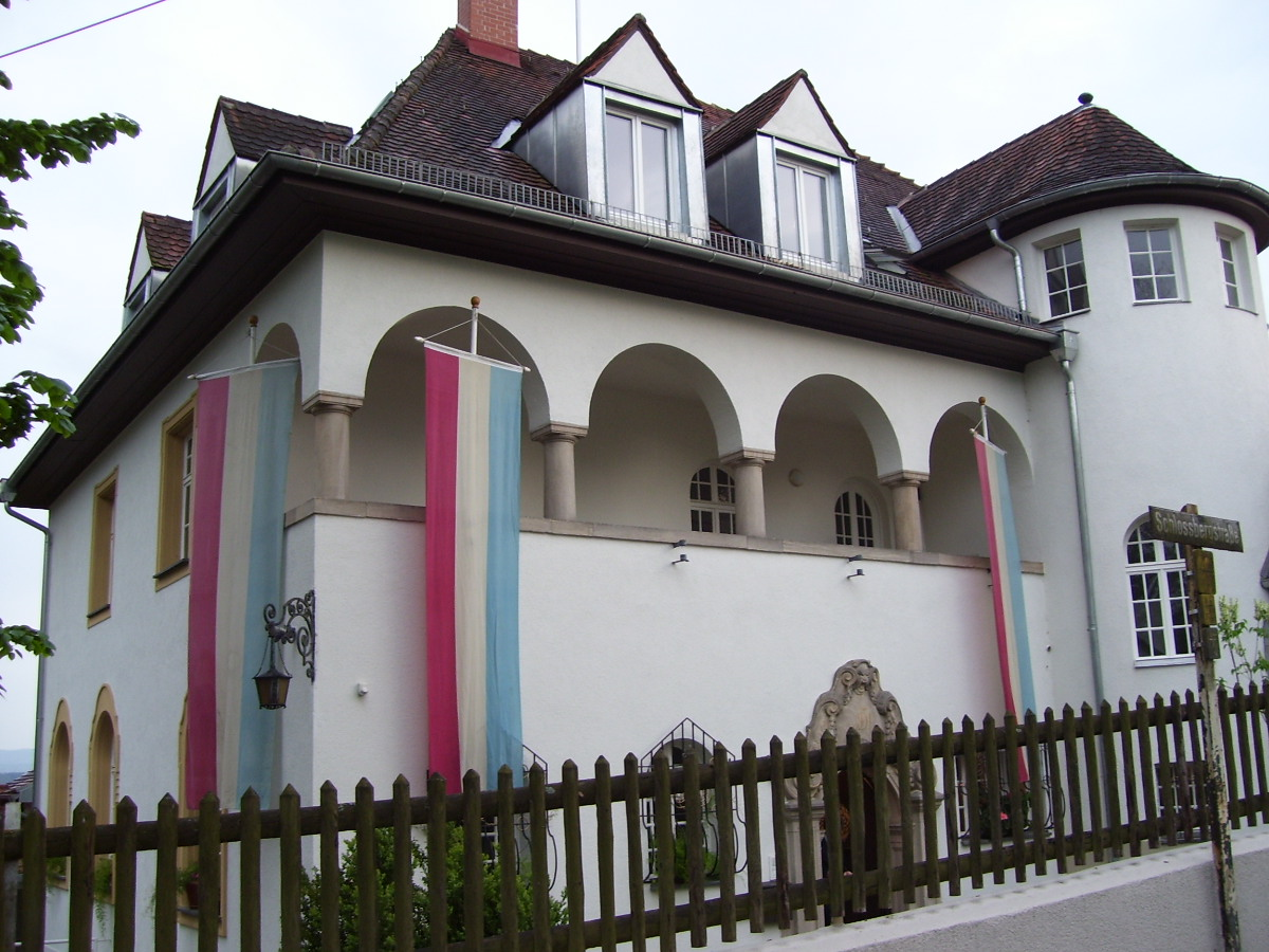 The house of Derendingia in may 2010.